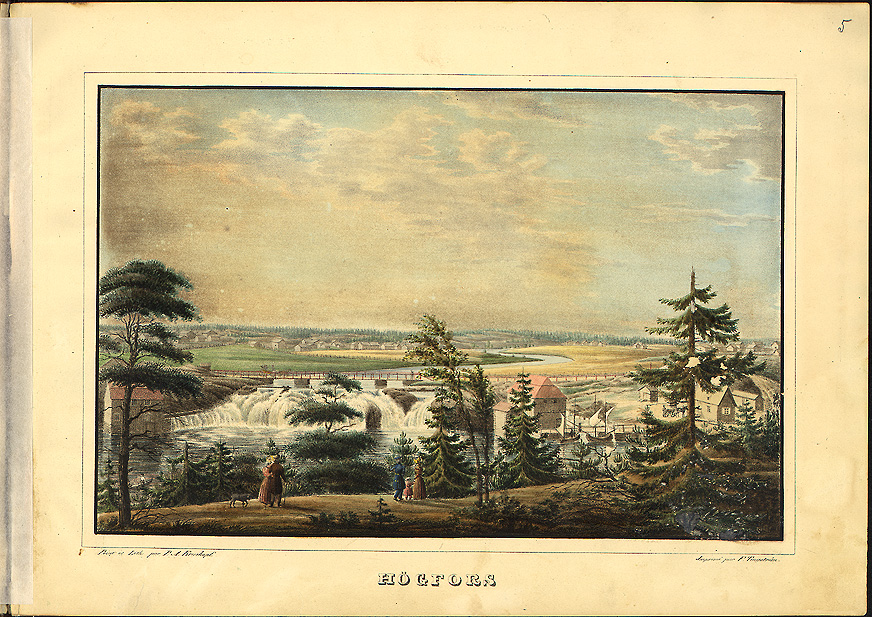 Korkeakoski by River Kymi, Finland